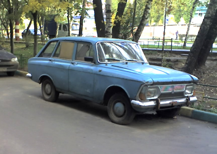 IZH-2125 early series